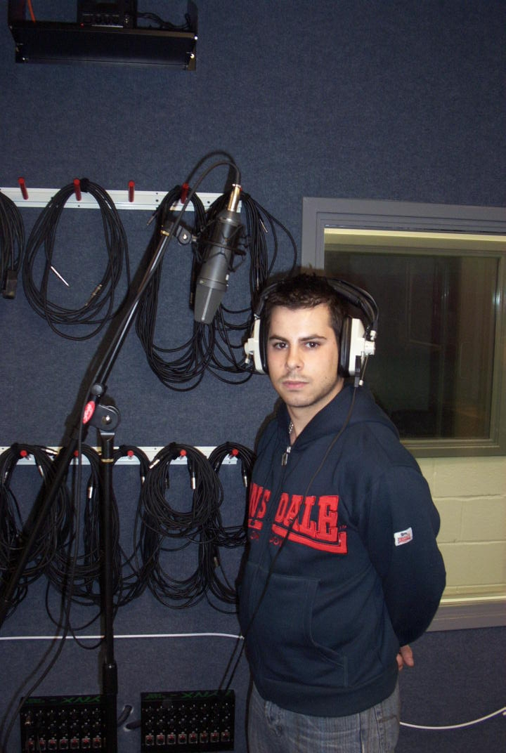 A vocalist in the live room of a recording studio. Photograph taken by Neil Martin. The microphone is a Neumann U87 and the headphones are a pair of beyer DT100s. Notice that the vocalist is wearing the headphones the wrong way round!